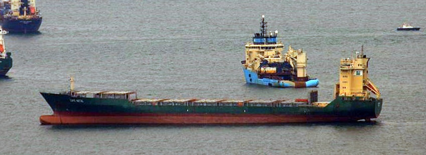 Singapore Harbour, August 25 2012.